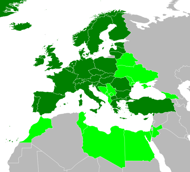 dark green - members; light green - affiliates